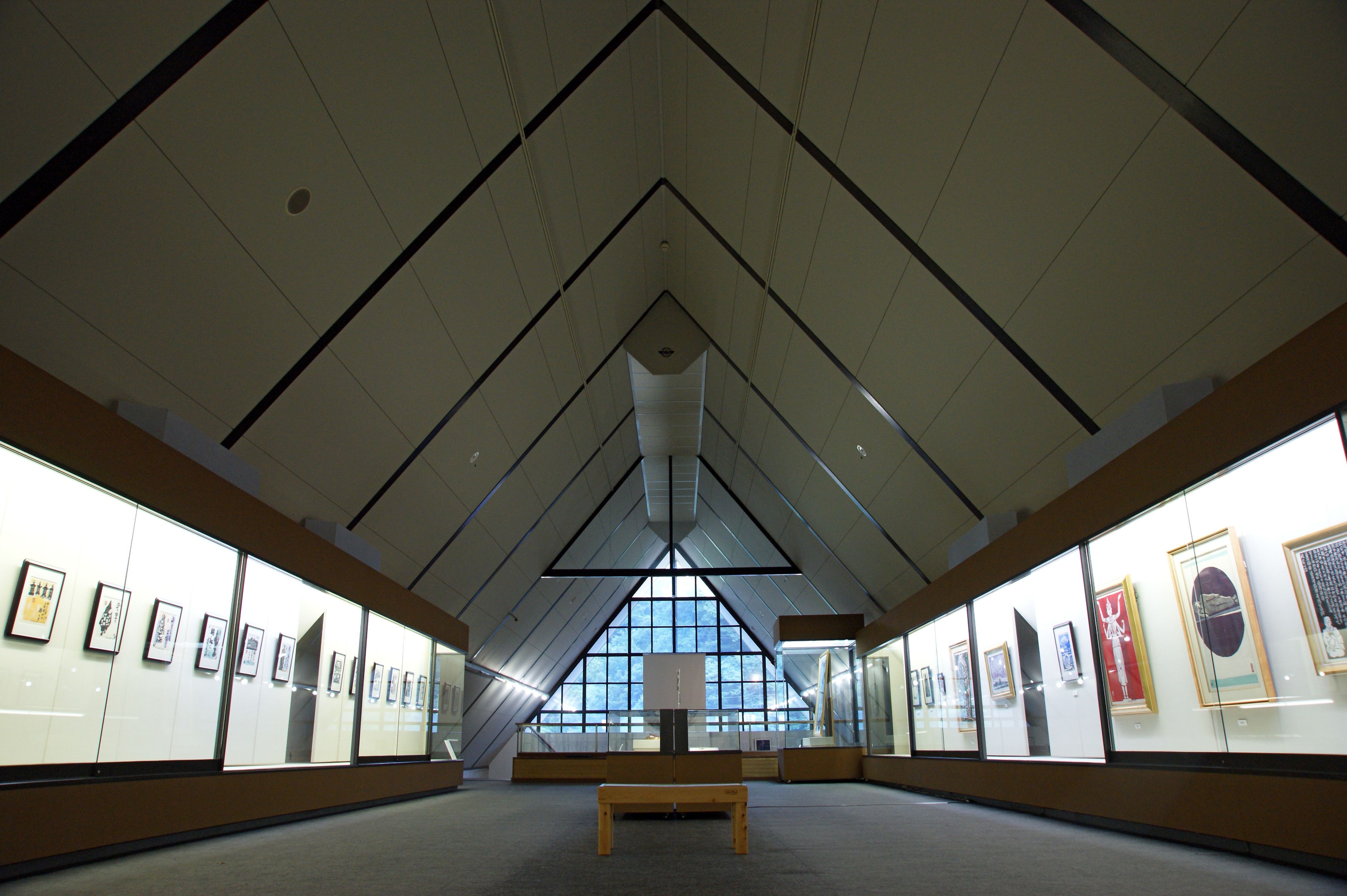 Misasa Museum in Misasa, Tottori prefecture, Japan